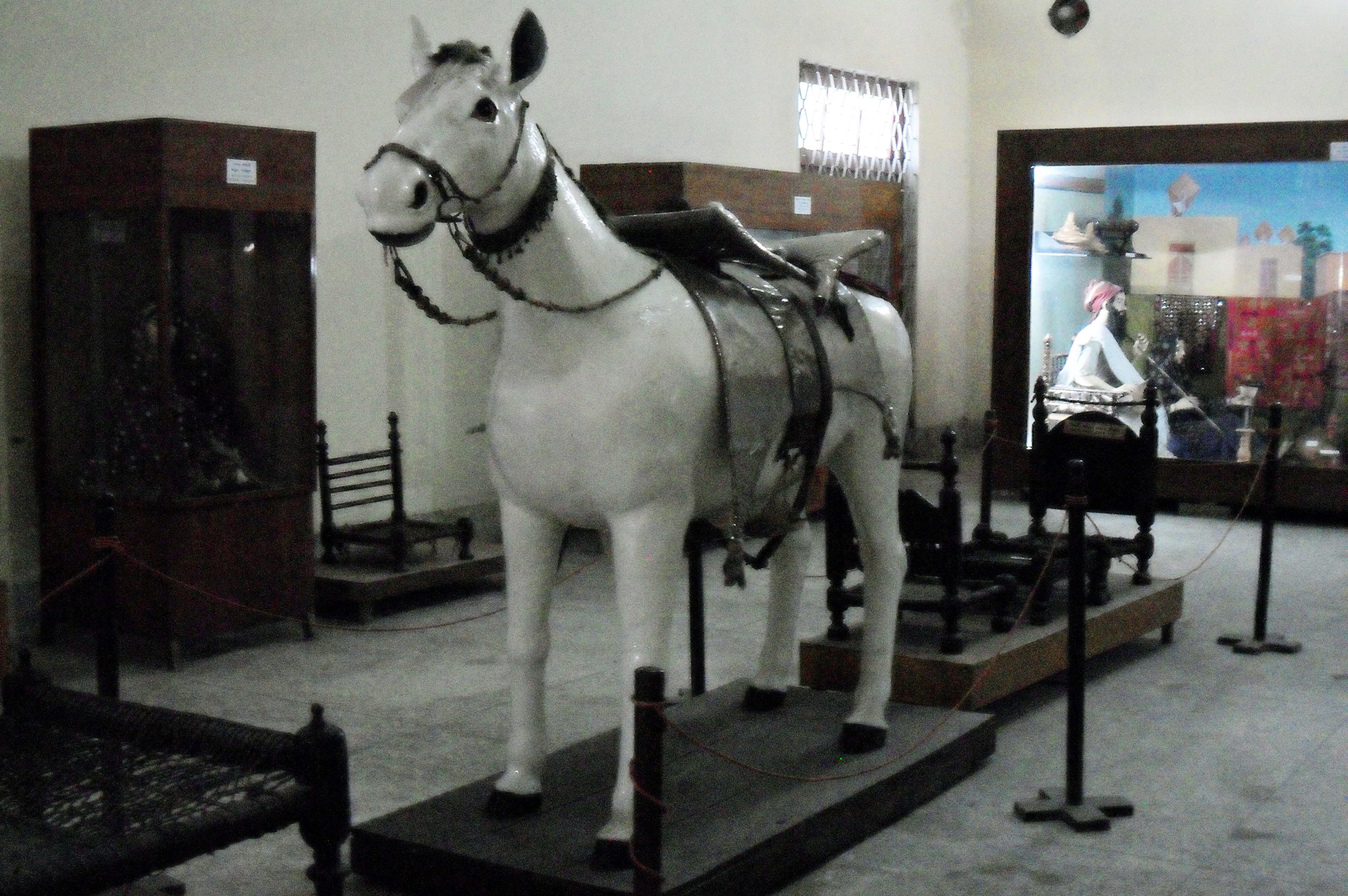 Traditional Horse at Ethnological Museum